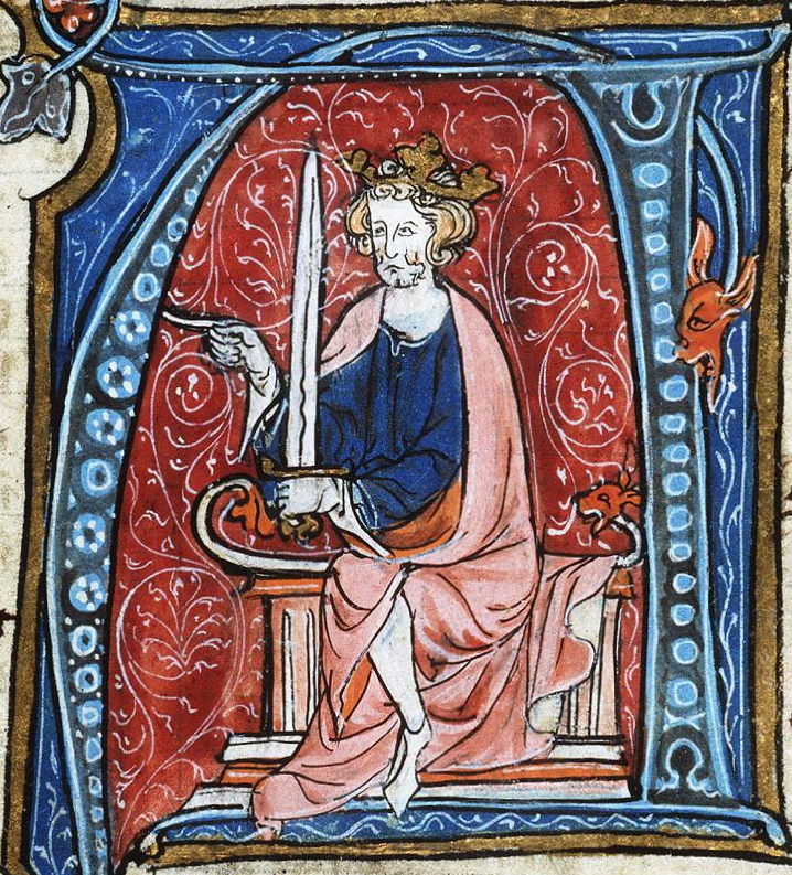 The King Conrad I enthroned Contents: Jacob van Maerlant, Spieghel Historiael Place of origin, date: West Flanders; c. 1325-1335 Material: Vellum, ff. 258, 320x233 (253x175) mm, 60 lines, littera textualis, Binding: 19th-century brown leather; blind Decoration: 20 three-column miniatures (135/65x200/180 mm); 5 two-column miniatures (90/60x145/115 mm); 20 column miniatures (70/45x65/50 mm); 19 historiated initials (70/50x90/50 mm) with border decoration; penwork initials throughout Provenance: Purchased in 1782 at a sale in Ghent (cat. no. 267) by J.A. Clignett (d. 1827); by descent to the Koninklijke Nederlandse Akademie van Wetenschappen (Royal Dutch Academy of Sciences), Amsterdam